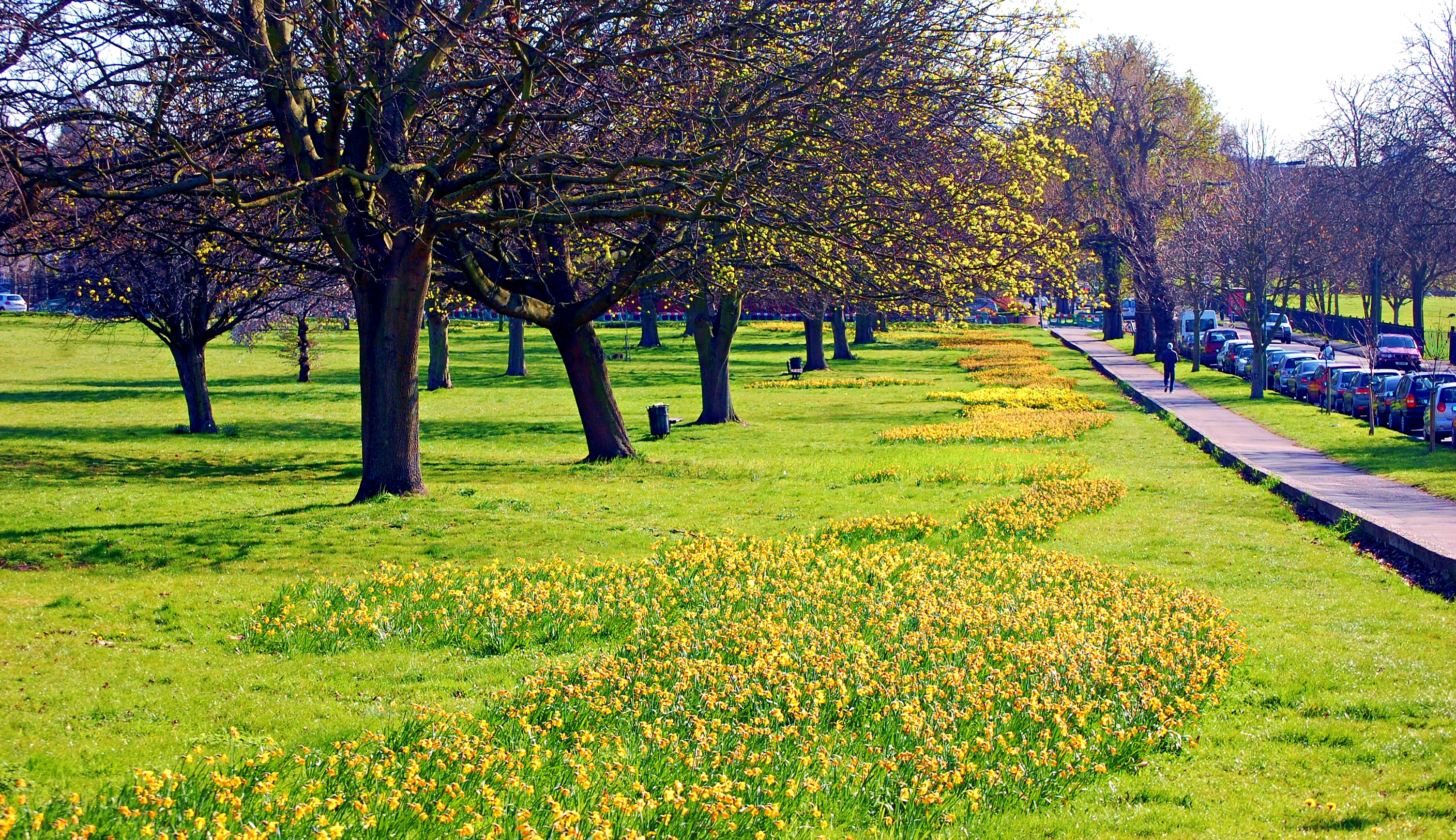 March 27 Sutton Surrey (5)